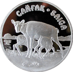 Coin of Kazakhstan